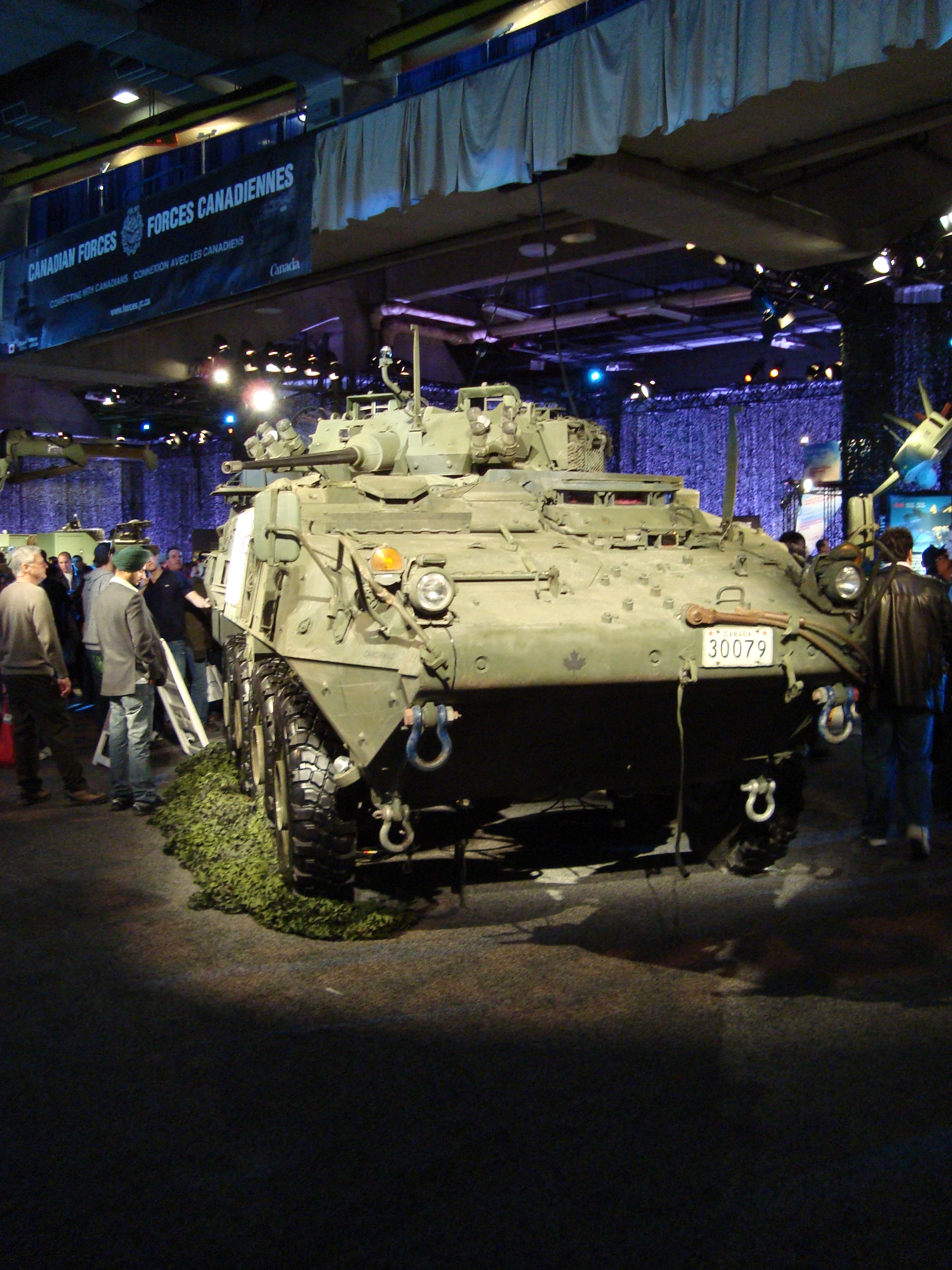 Canadian Forces LAV